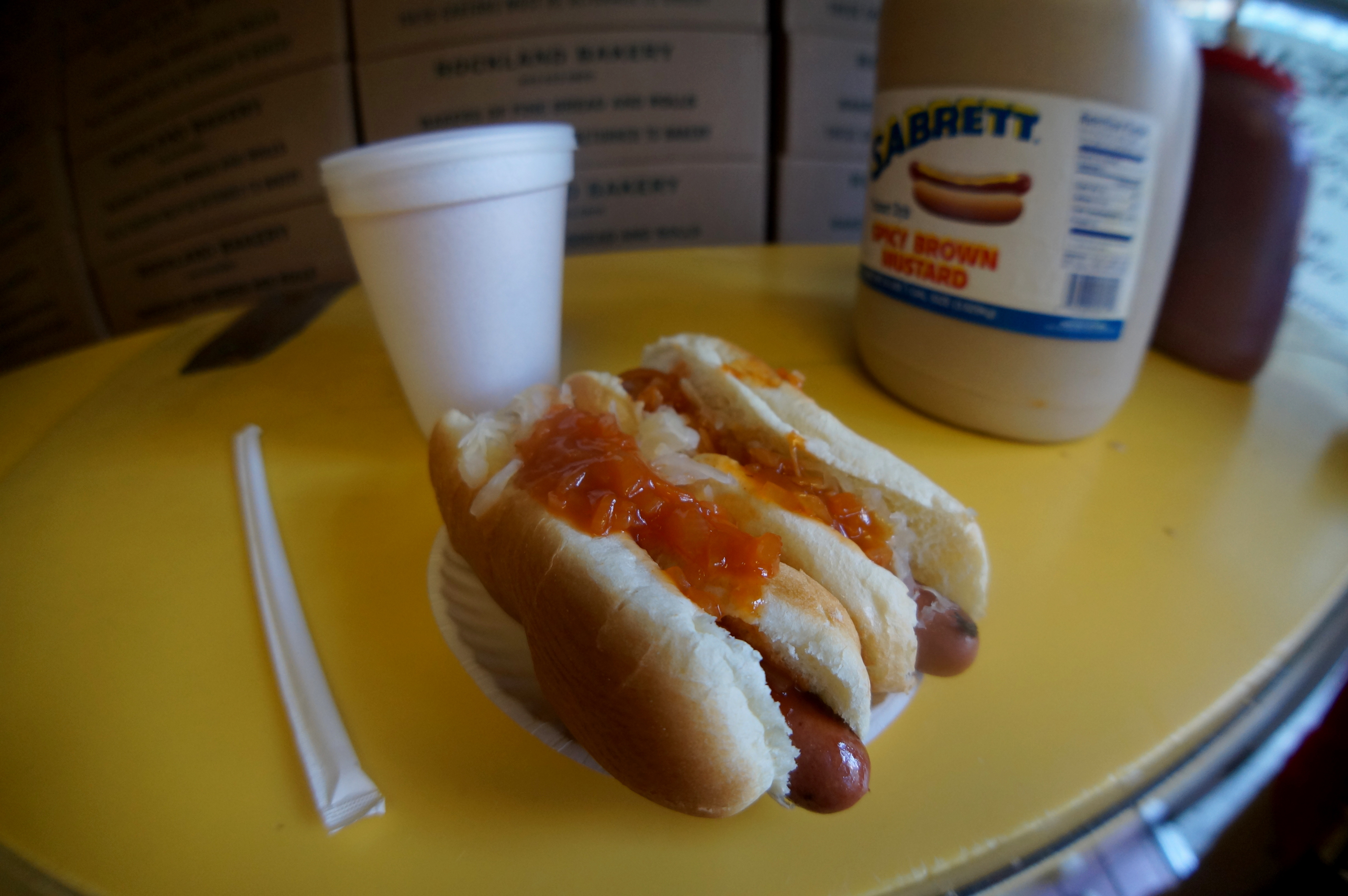 Classic New York Hot Dog; Sauerkraut, onions 100% American Beef on a soft bun, Served with a cold fruit smoothie.